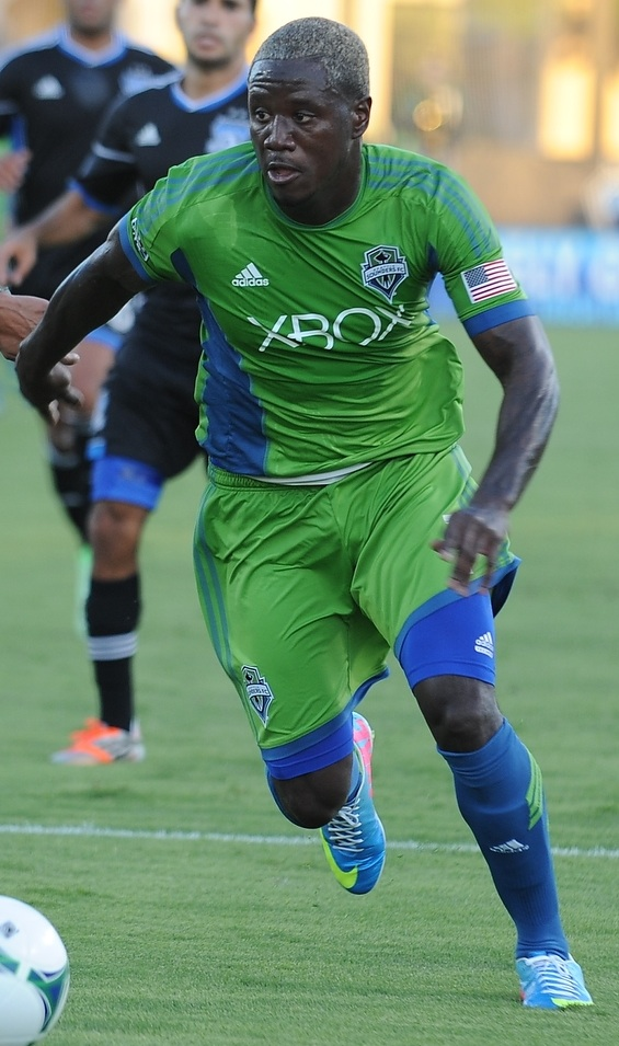 July 13, 2013 - Santa Clara, CA. The San Jose Earthquakes defeated the visiting Seattle Sounders FC 1-0. Photo by Joe Nuxoll / .